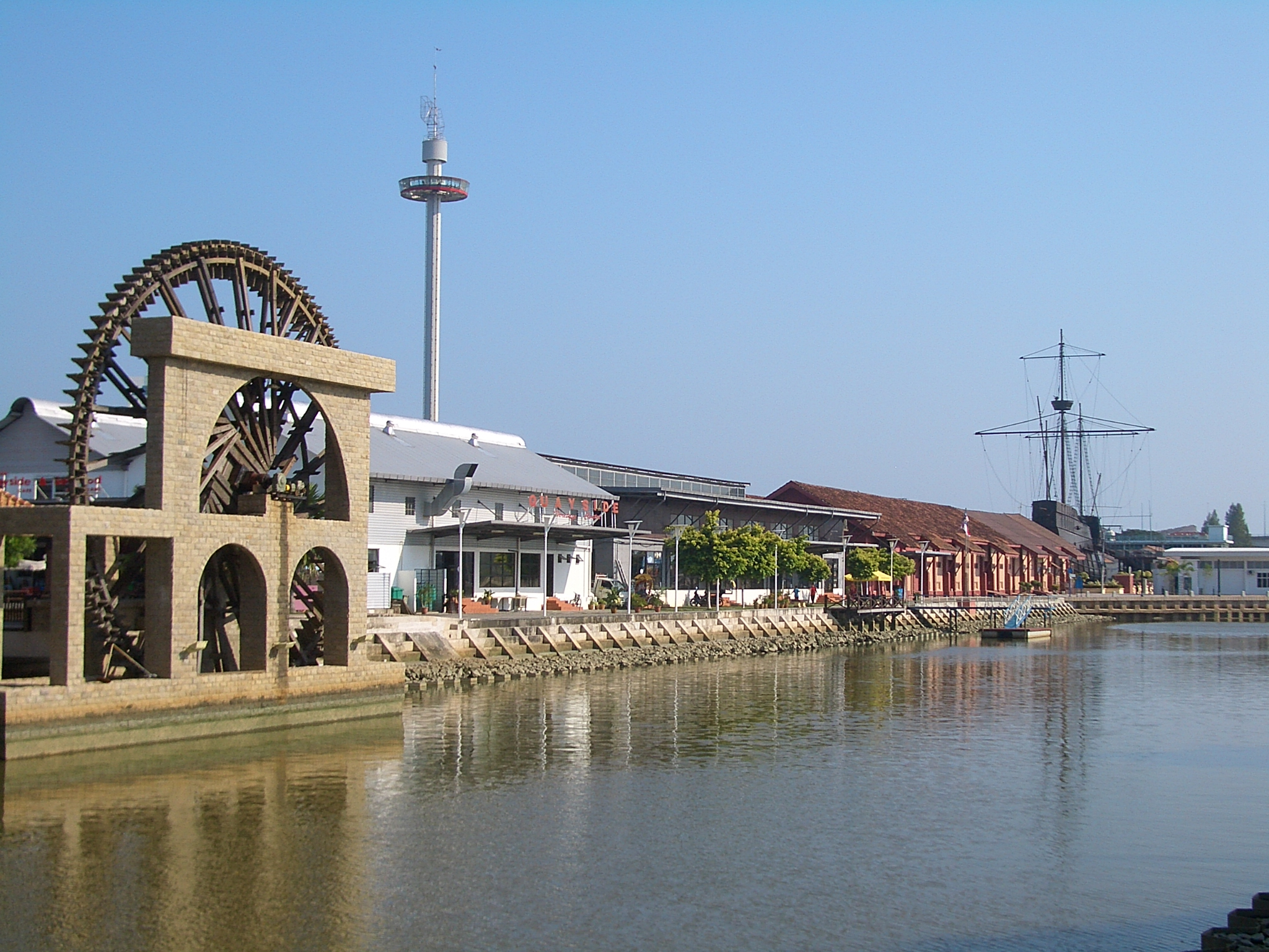 Malacca River near the old Melaka city center.